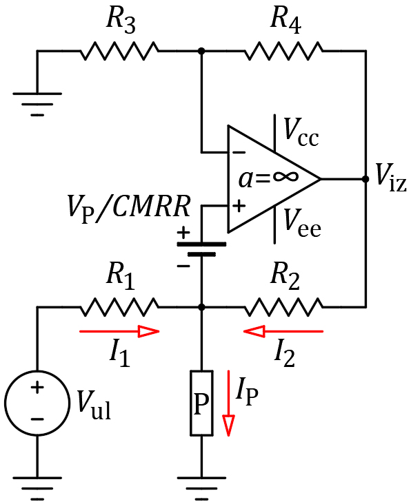 The Common-Mode Rejection Ratio